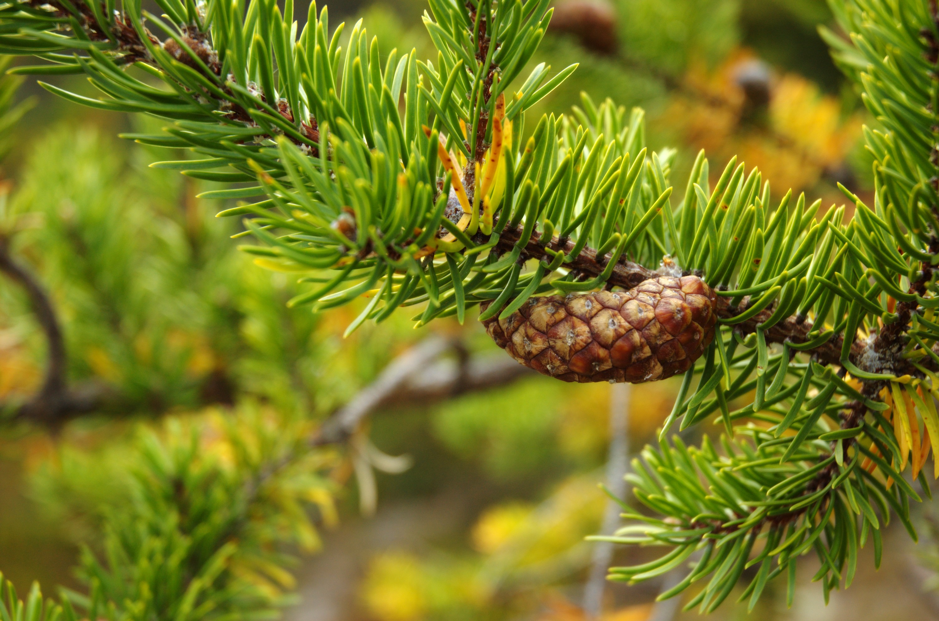 Pinus banksiana foliage and cone, Neils Harbour, Nova Scotia, 46°46'33"N 60°19'30"W.